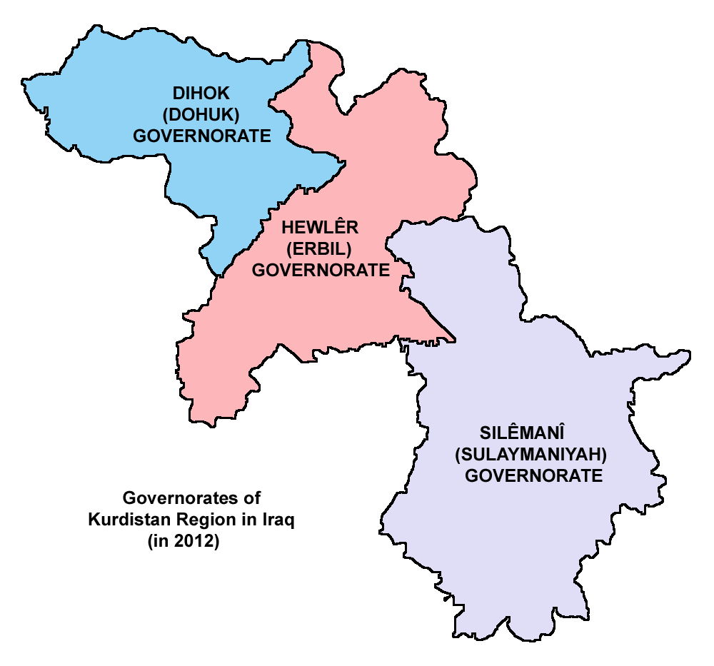 Map showing the governorates of Kurdistan Region in Iraq (in 2012).